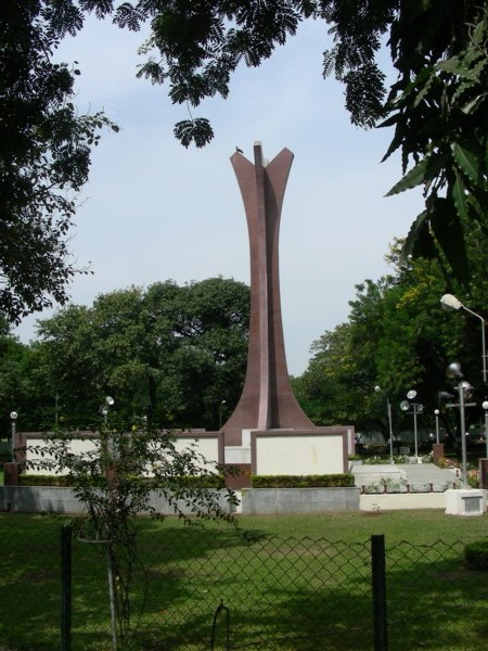 National War Memorial (Maharashtra), Pune Cantonment, Maharashtra, India